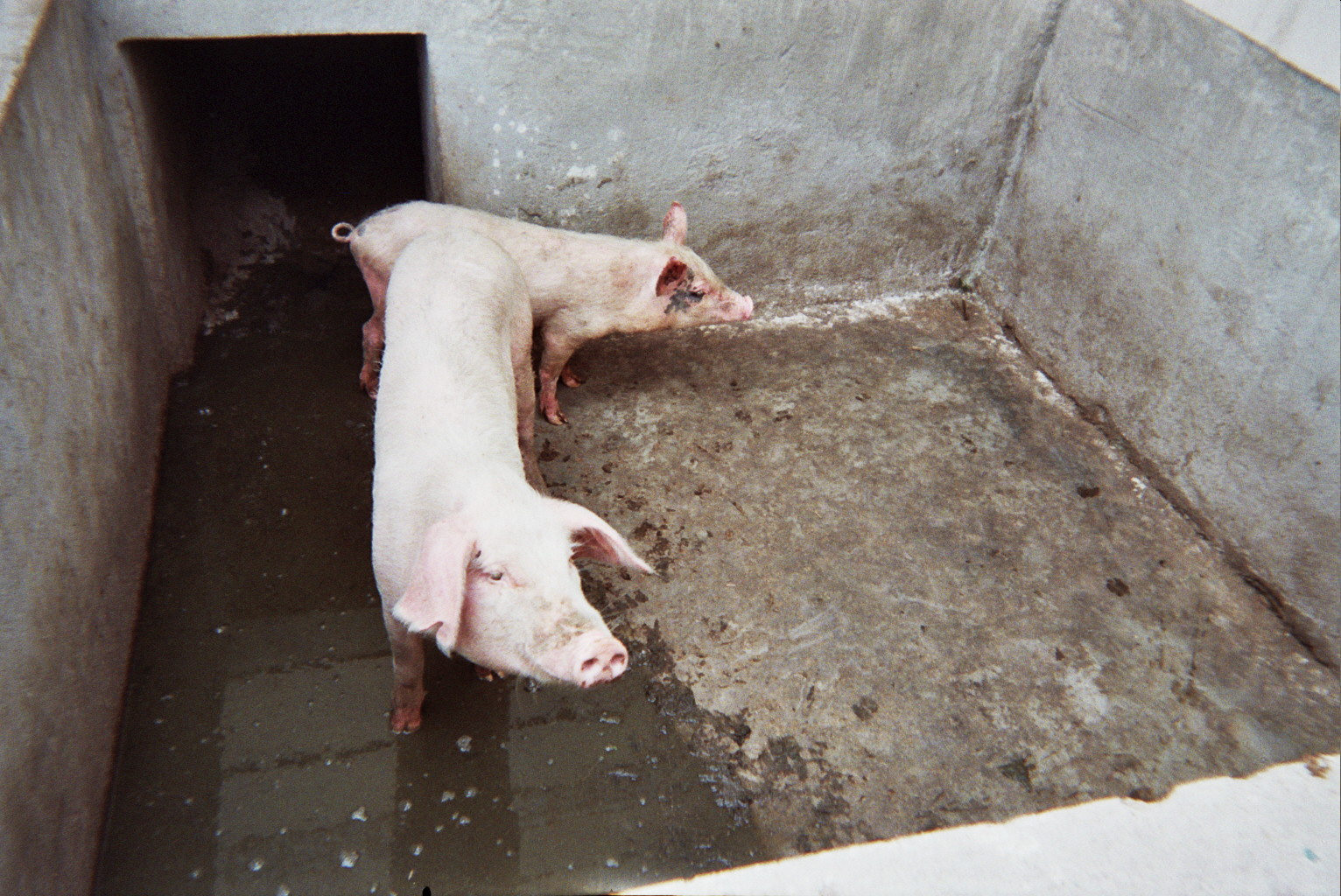 Pigs at collective farm in DPRK